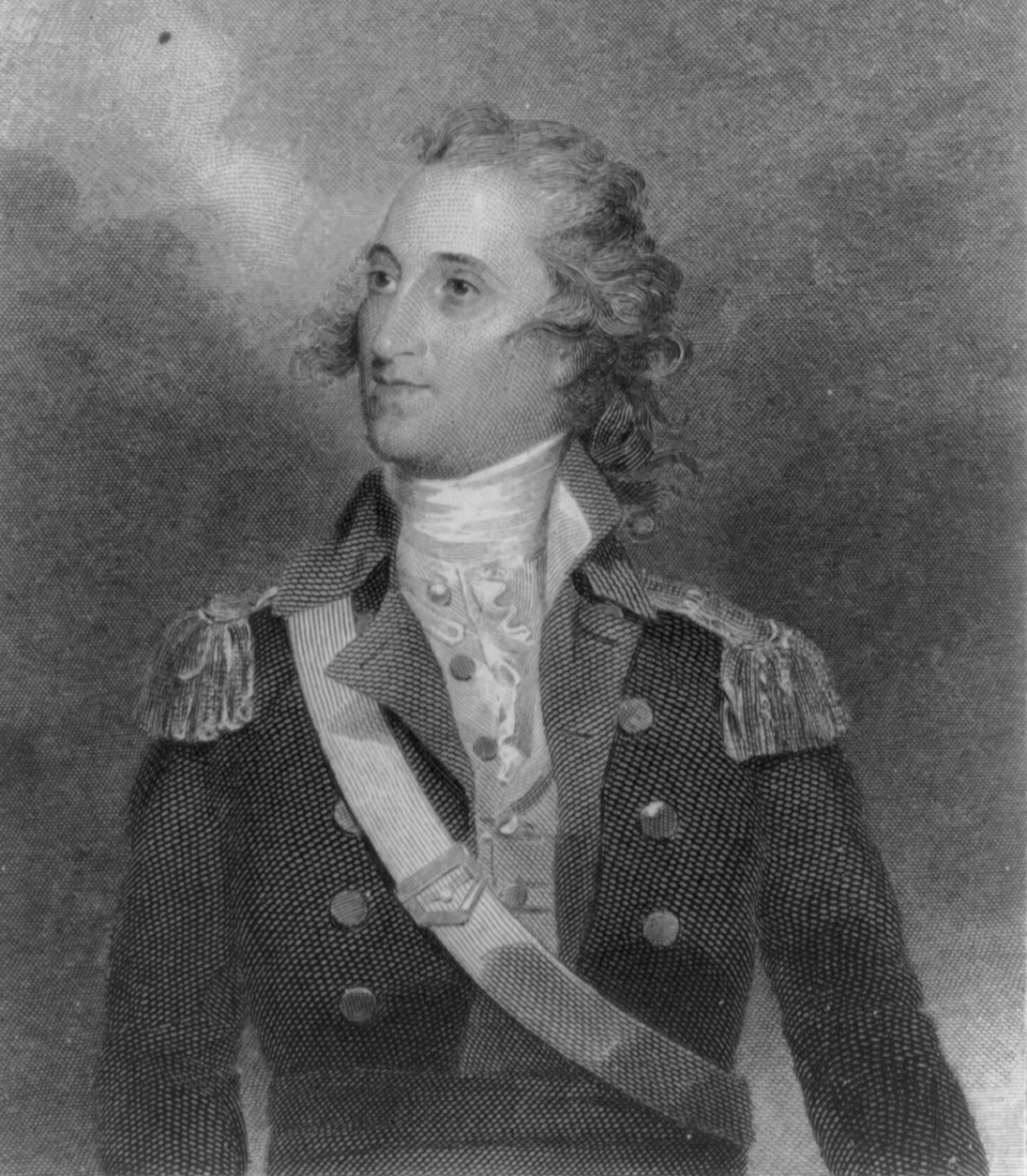 TITLE [Thomas Pinckney, 1750-1828, half-length portrait, facing left] CALL NUMBER BIOG FILE [item] [P&P] REPRODUCTION NUMBER LC-USZ62-45928 (b&w film copy neg.) MEDIUM 1 print : engraving. CREATED/PUBLISHED [no date recorded on caption card] NOTES Engraving by W.C. Armstrong from oil miniature by Trumbull. REPOSITORY Library of Congress Prints and Photographs Division Washington, D.C. 20540 USA DIGITAL ID (digital file from b&w film copy neg.) cph 3a46107 CONTROL # 2005685576